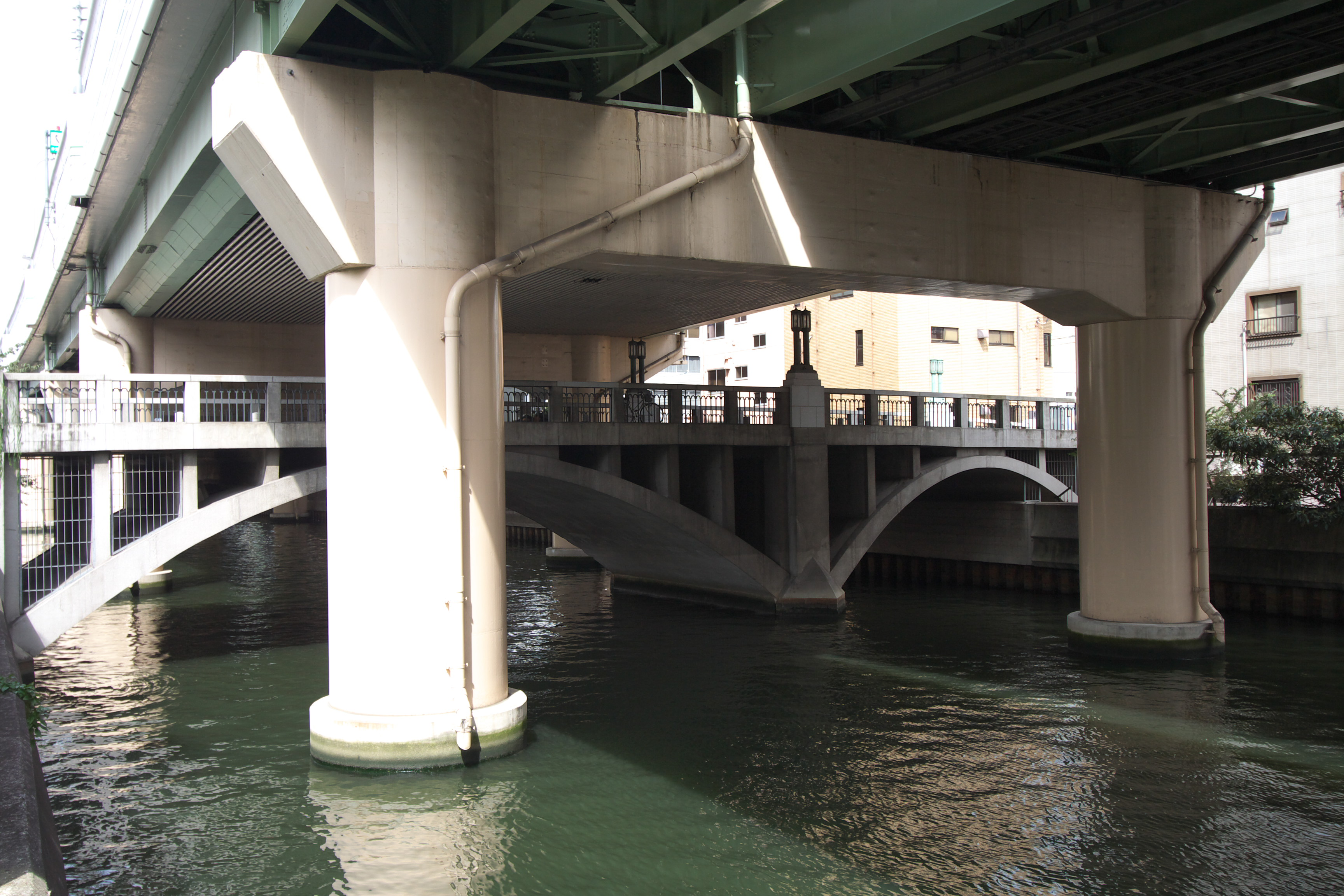 Otebashi(Osaka City, JAPAN)